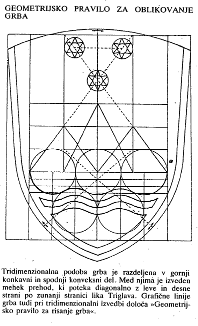 The geometrical rules for the construction of the national coat of arms of the Republic of Slovenia. The designer has described the coat of arms as a cosmogram, which creates an energetic field protecting the country and stimulating its inner potentials.[1]The text reads: "The geometrical rule for the construction of the coat of arms. [Followed by the image] The three-dimensional depiction of the coat of arms is separated into the upper concave and the lower convex part. Between the two, there is a soft transition running diagonally from the left and the right side on the external side of the geometrical shape of Mt. Triglav. Also with the three-dimensional version, the graphical lines of the coat of arms are determined by the "Geometrical rule for the construction of the coat of arms."